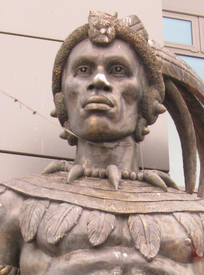 Huge statue of Shaka Zulu (upper portion), as released by image creator Ristesson HistoryPlace: Camden Market, London, England, United Kingdom